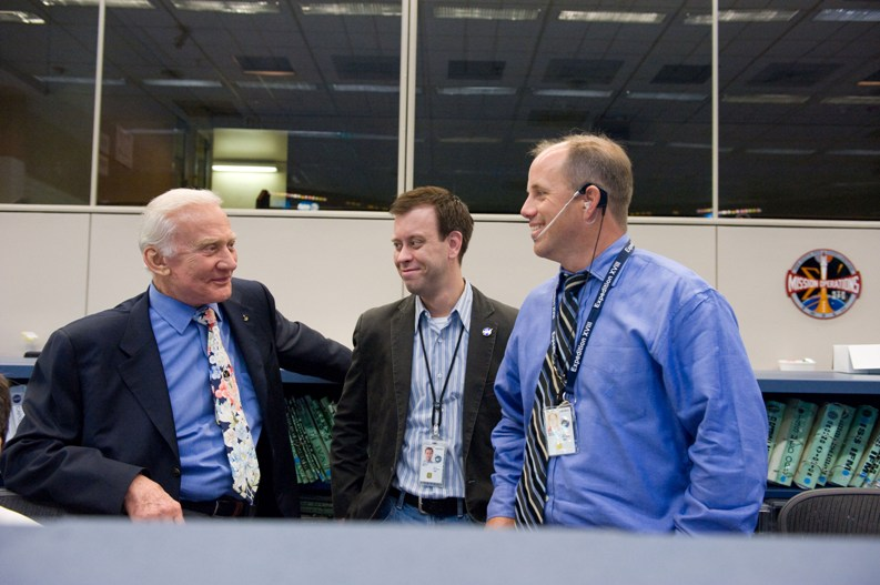 Buzz Aldrin stands with NASA Spokesman Josh Byerly and Flight Director Ron Spencer in the International Space Station Flight Control Room in July 2009.